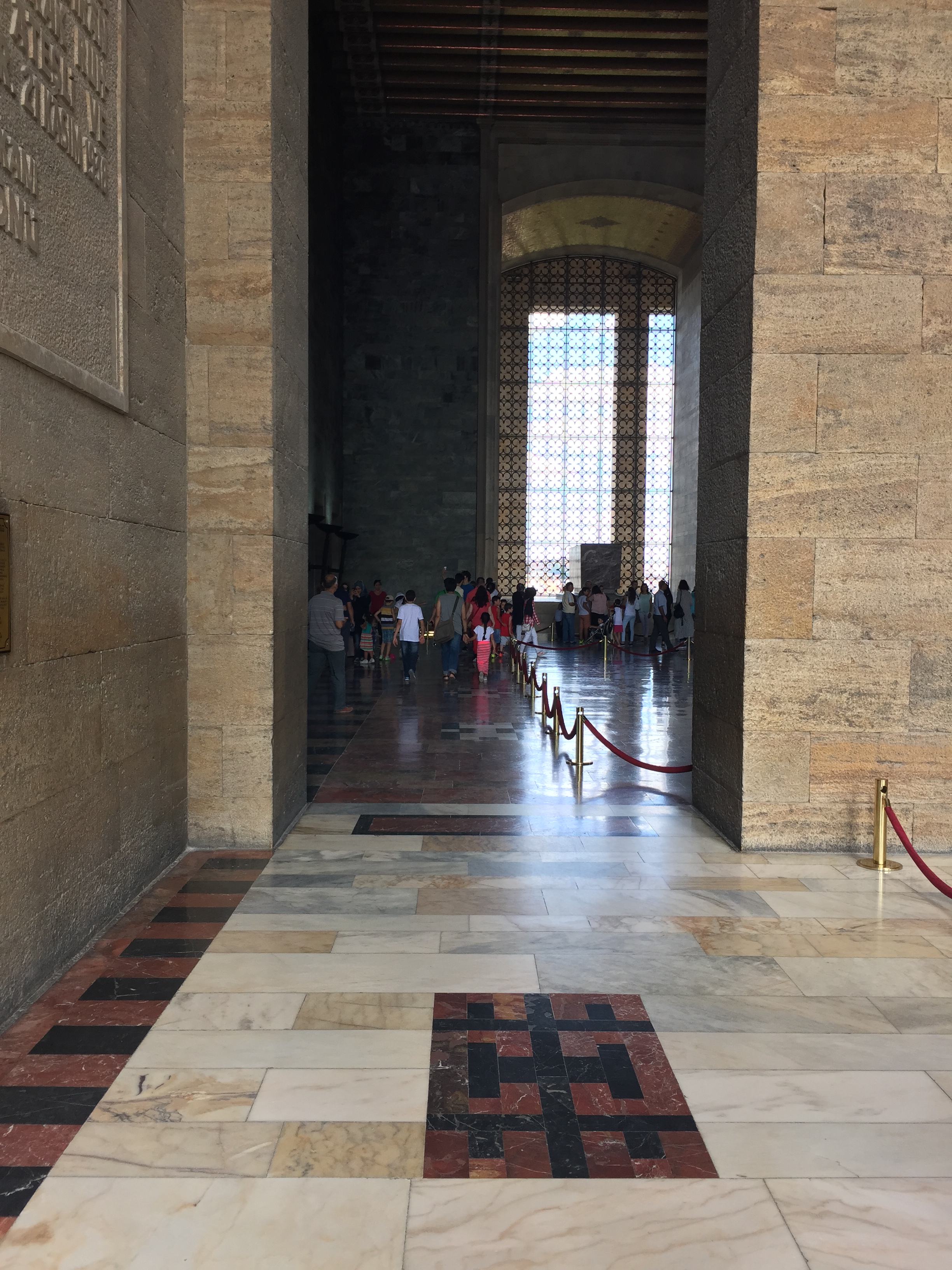 Anıtkabir (literally, "memorial tomb") is the mausoleum of Mustafa Kemal Atatürk, the leader of the Turkish War of Independence and the founder and first President of the Republic of Turkey